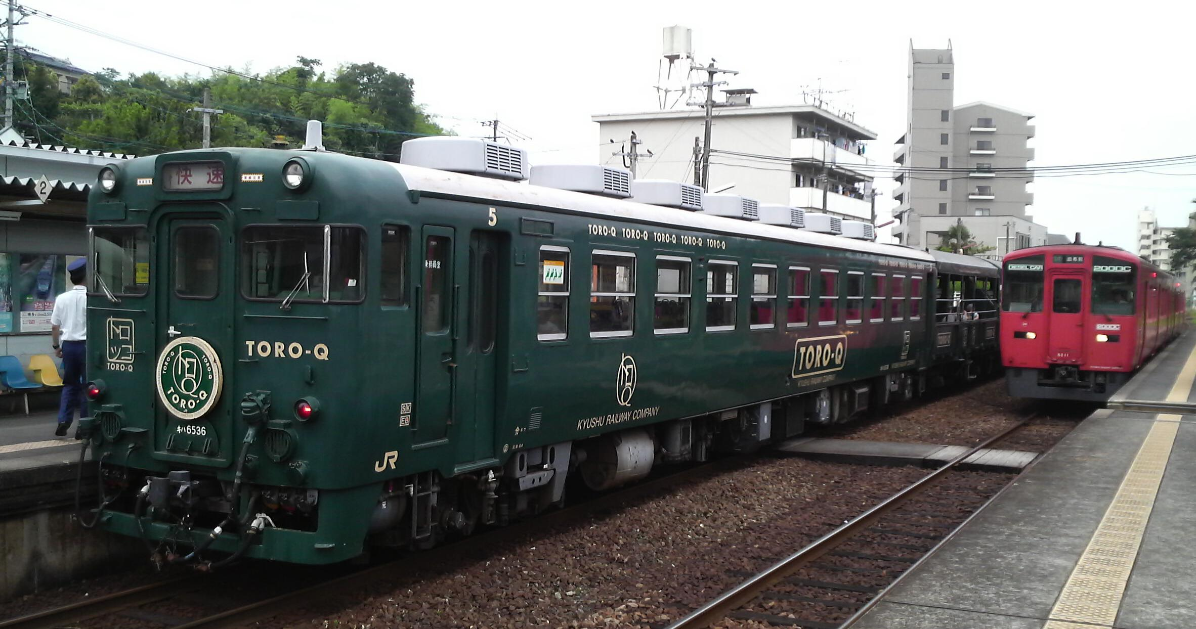 JR Kyushu "Toro-Q" Joyful Train set led by KiHa 65 36 DMU car at Minami-Oita Station